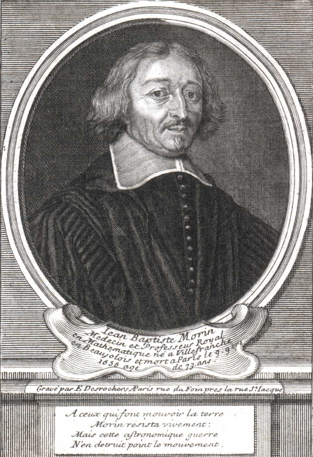 French mathematician and astrologer Jean-Baptiste Morin (1583-1656) by Étienne Desrochers (1668–1741)